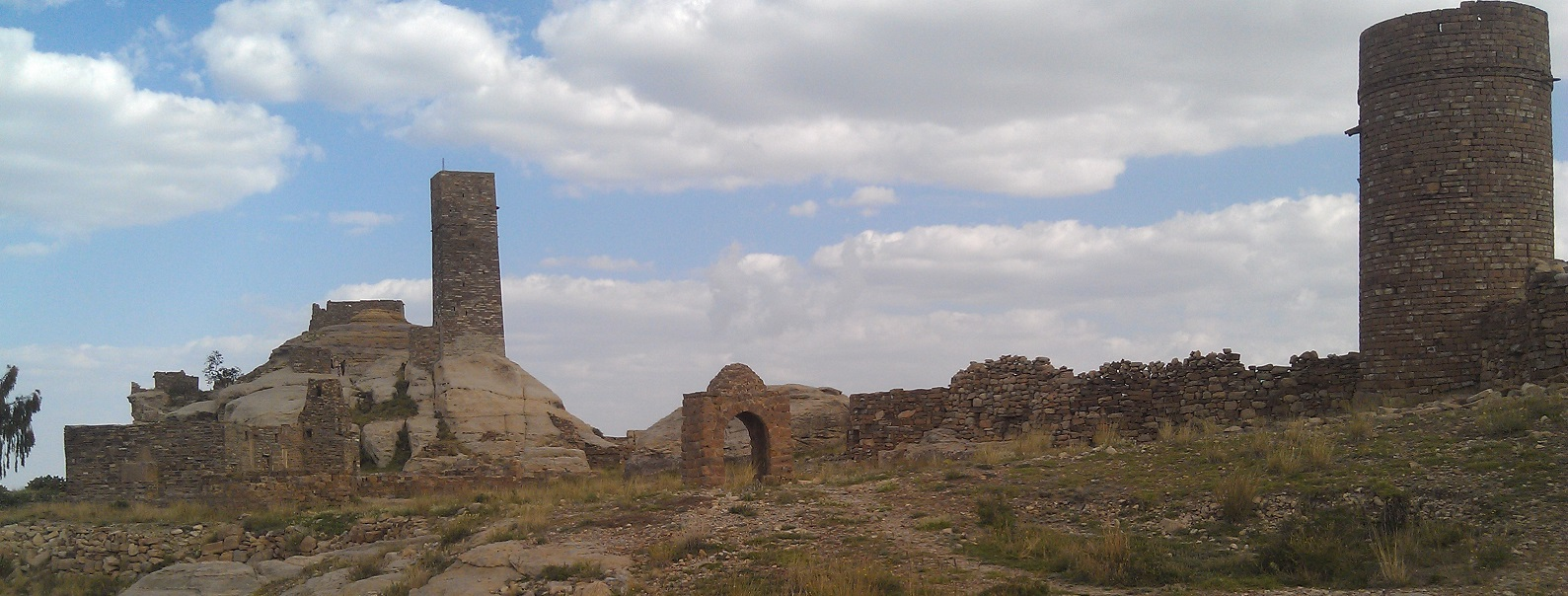 Another side view of Thula fortification